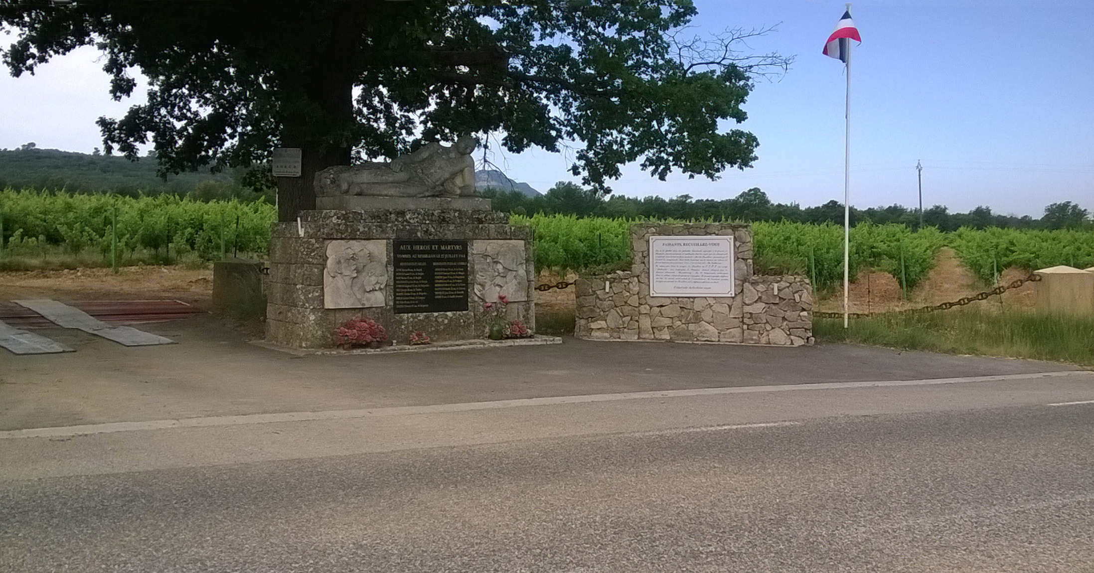 War memorial in Département Var